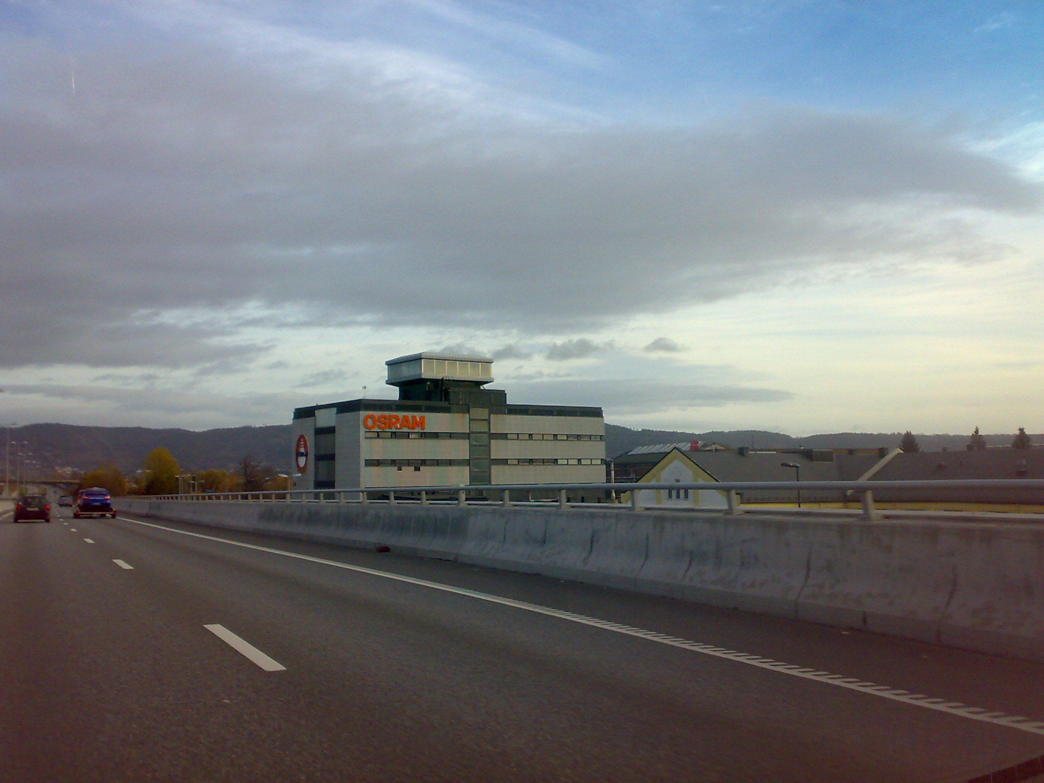 Osram factory, Drammen, Norway